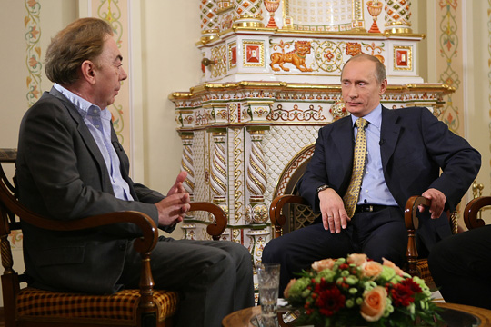 Prime Minister Vladimir Putin met with British composer Andrew Lloyd Webber